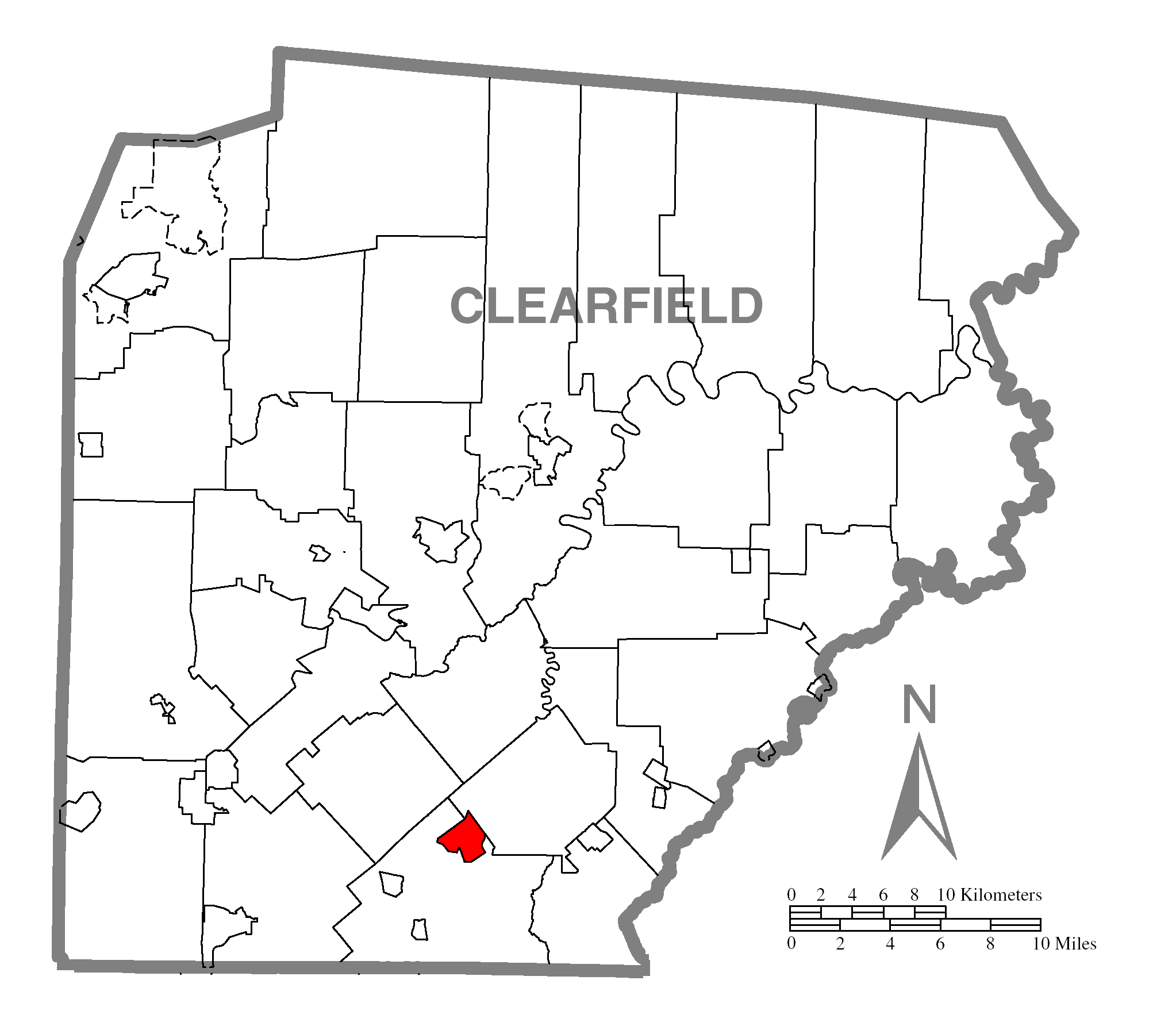 A map of Clearfield County showing Glen Hope, Pennsylvania (alternate) highlighted on the map.